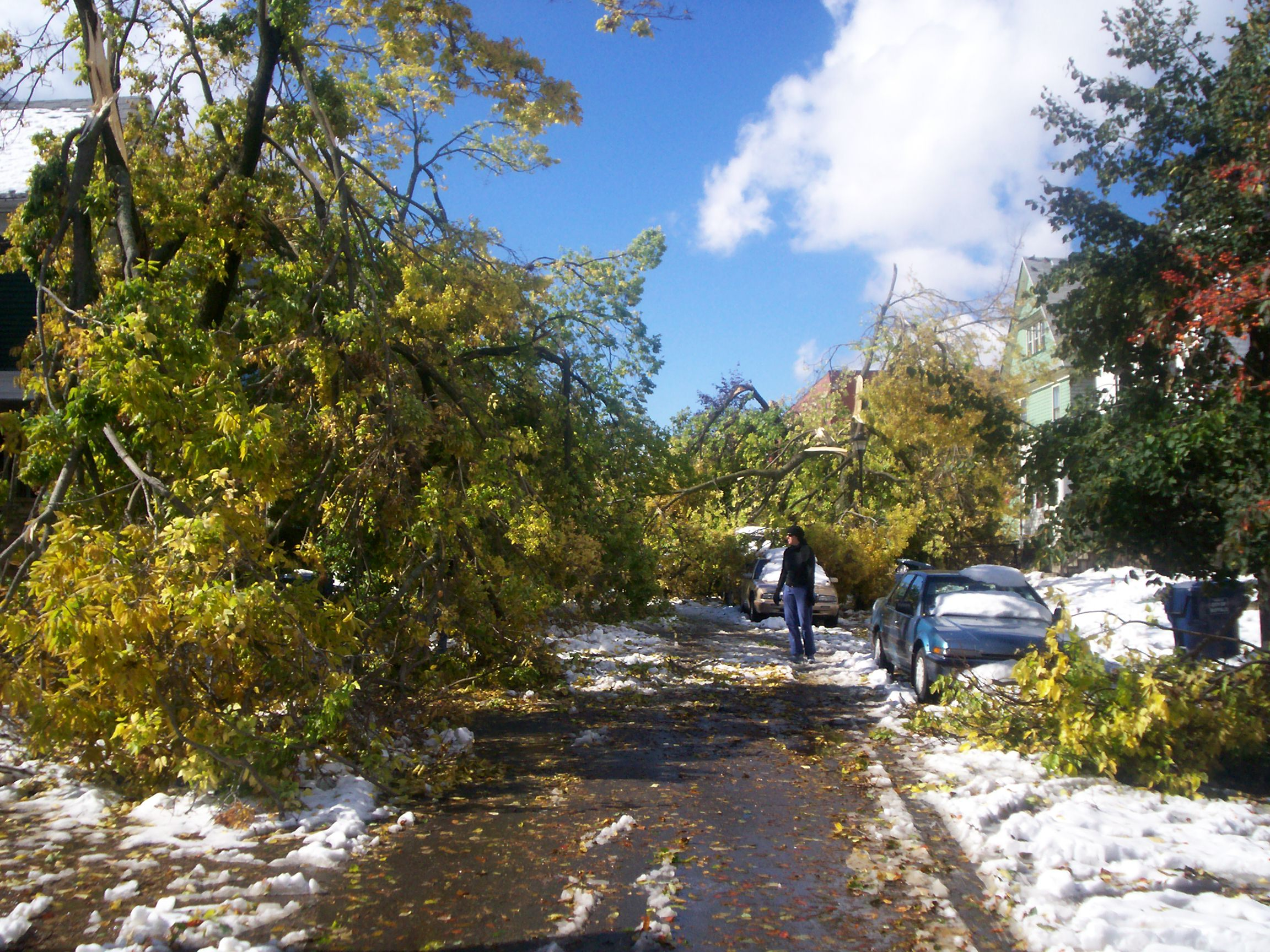 Image: Looking westward on Bird Avenue in Buffalo, New York just off Elmwood Avenue, the street is completely blocked by trees from the "Friday the 13 snow storm" and you can barely walk on it. Residents walking inbetween the branches are trying to find ways of removing them. [October 14, 2006]. Source: I am the author of this image.